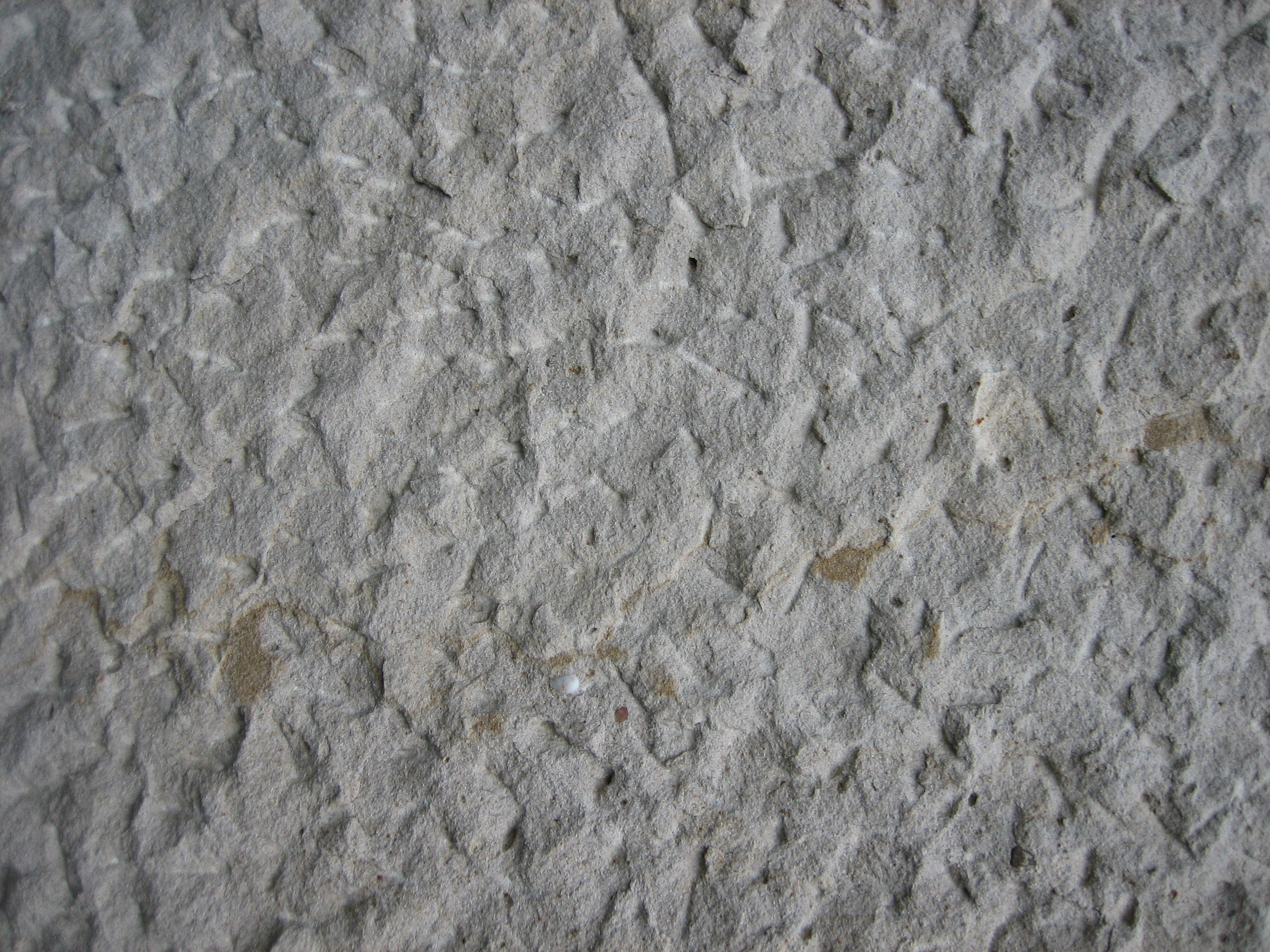 yellow sandstone pointed surface